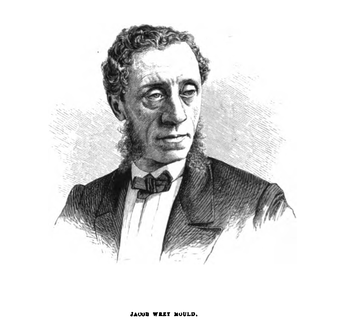 Copy of engraving of Jacob Wrey Mould from A Description of the New York Central Park (1869) by Clarence Cook